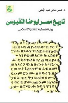 tareehk of misr